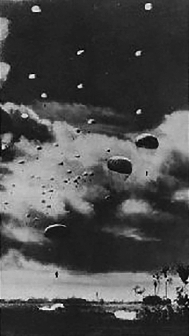 Battle of Menado: Formation of Type 96 “Tina” transports dropping men of the Yokosuka 1st SNLF over Langoan airfield, Manado, Celebes, in January 1942